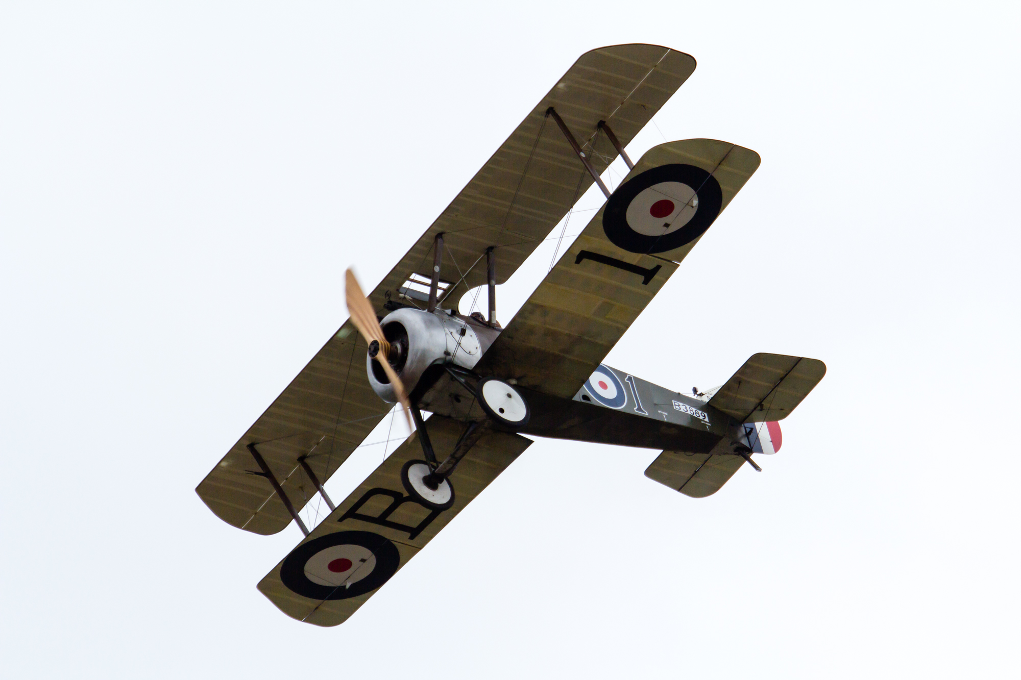 Classic Fighters 2015 - Sopwith Camel ZK-JMU